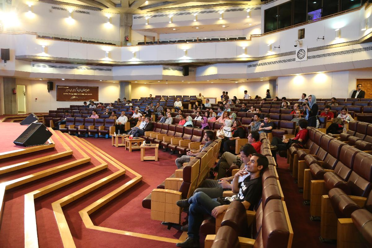 Farsi Wikipedia celebrates its 500K article milestone in Iranian national library in Tehran.